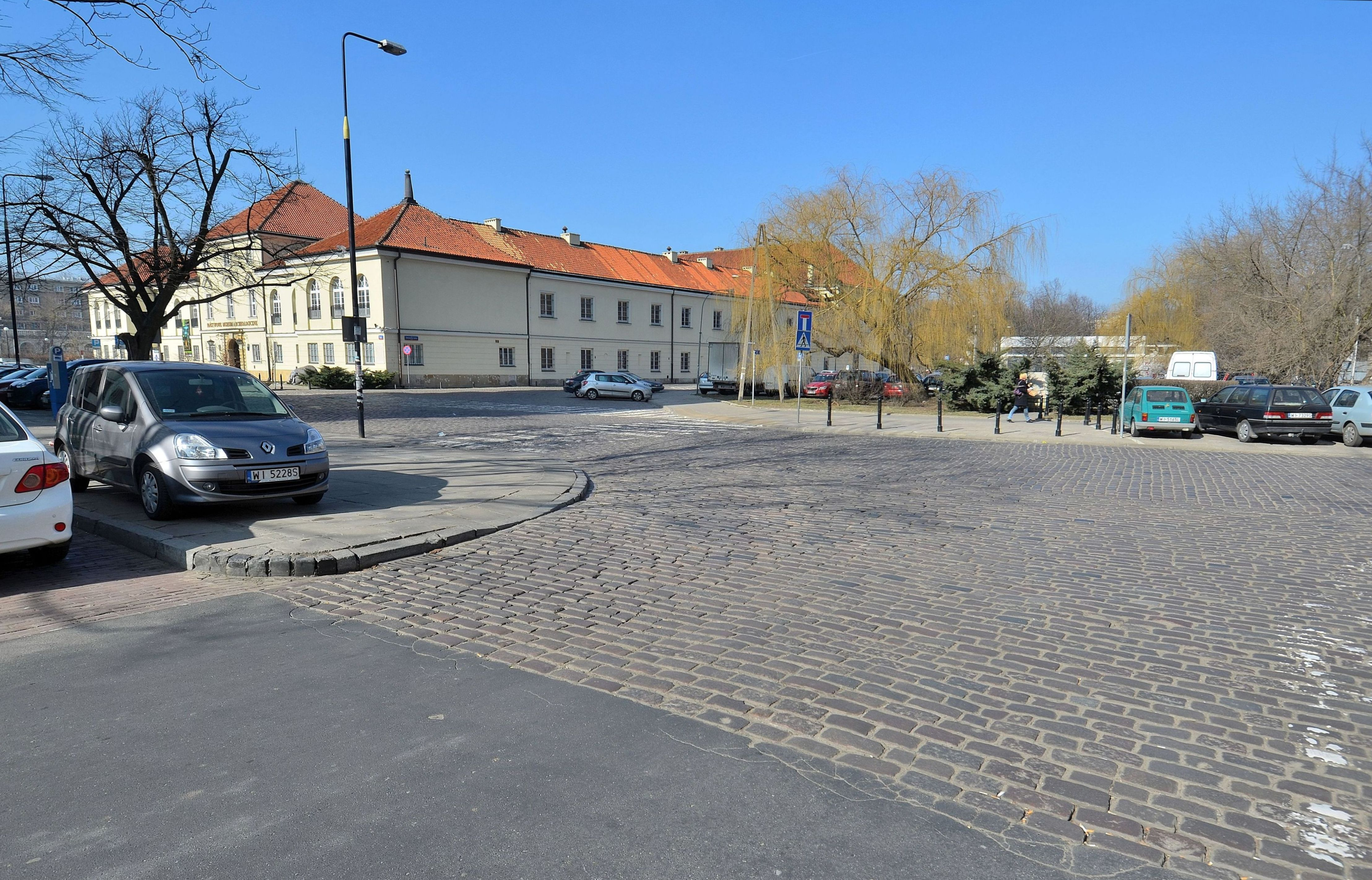 Bielańska Street near Długa Street in Warsaw